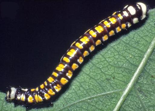 Lyces flavissima larva Location: Venezuela Reference: Miller JS. 2009. Generic revision of the Dioptinae (Lepidoptera: Noctuoidea: Notodontidae). Bulletin of the American Museum of Natural History 321, 1-971 + 48 plates. (Plate 39)